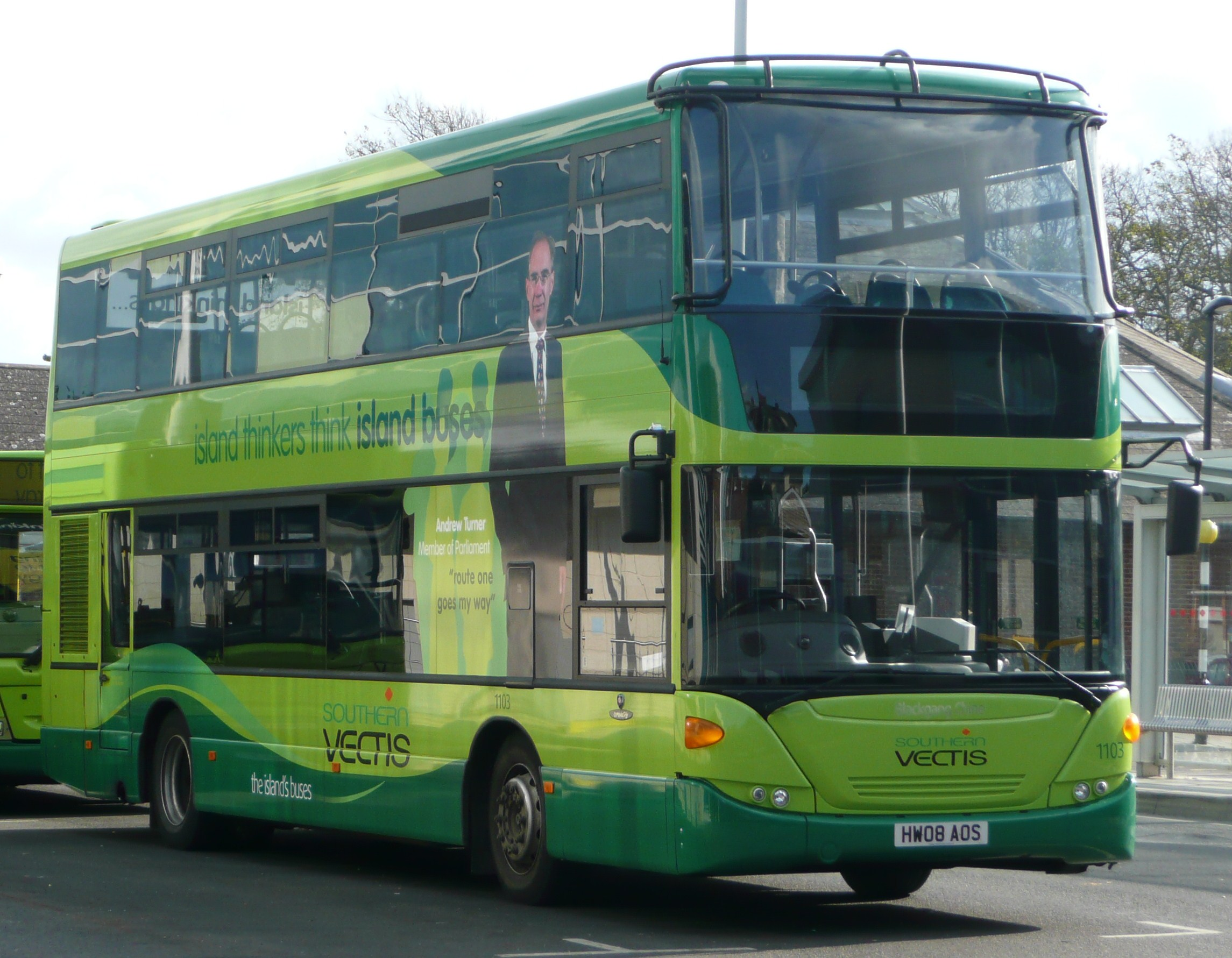 Southern Vectis 1103 Blackgang Chine (HW08 AOS), a double-decker Scania CN270UD 4x2 EB OmniCity built in 2008, laying over in Newport bus station, Isle of Wight. The "island thinkers think island buses" branding featured on these buses can clearly be seen, with a well known "island person" featured on the offside of the vehicle.